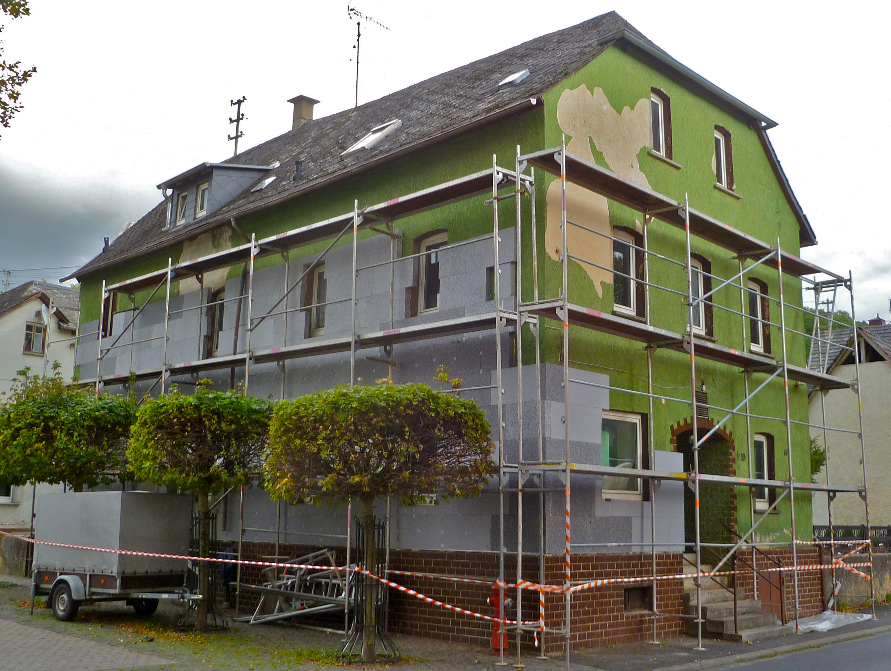 EIFS (German: WDVS on old building.